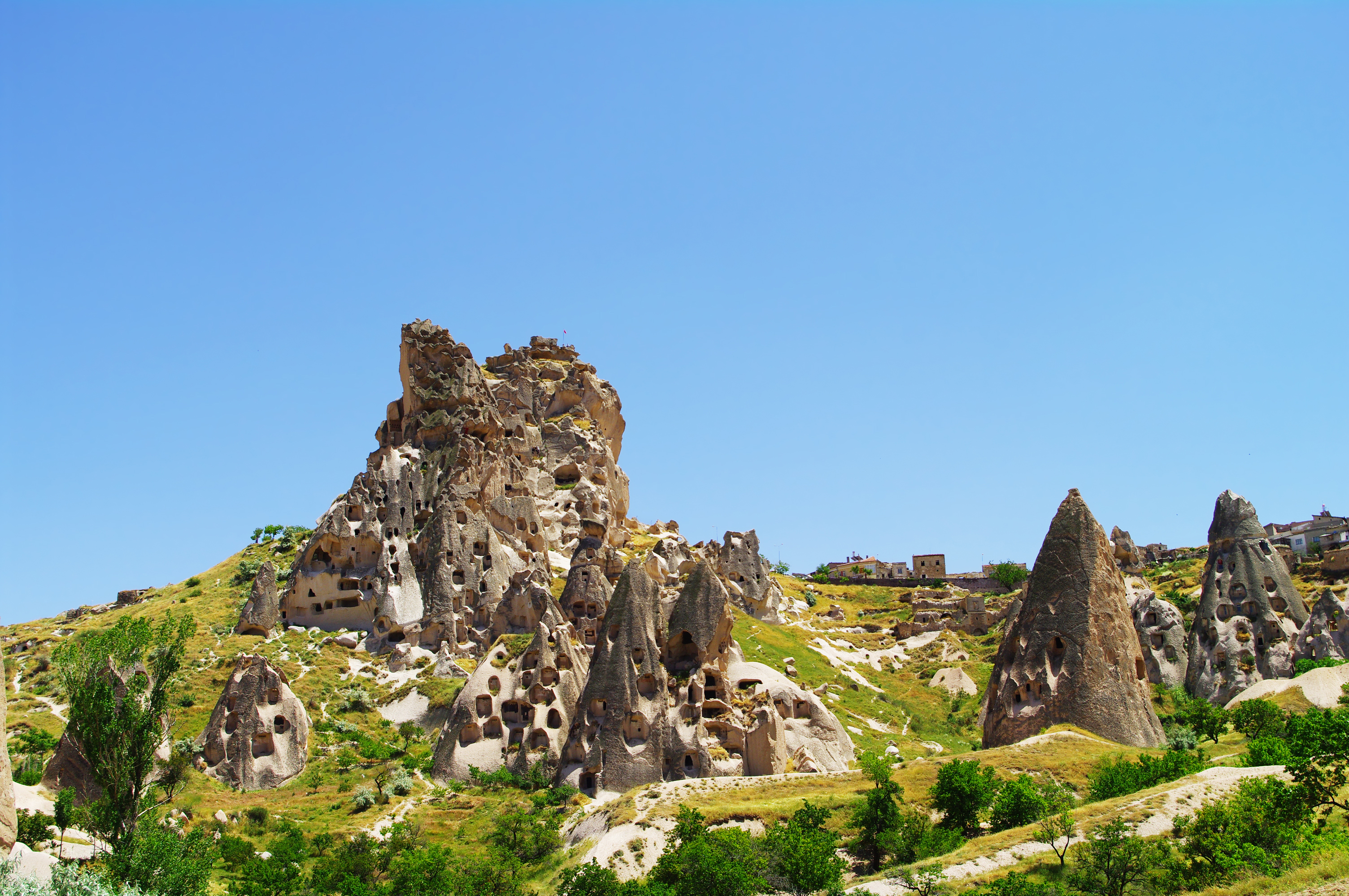 Fairy chimneys in Uçhisar, Cappadocia. Nevşehir - Turkey.